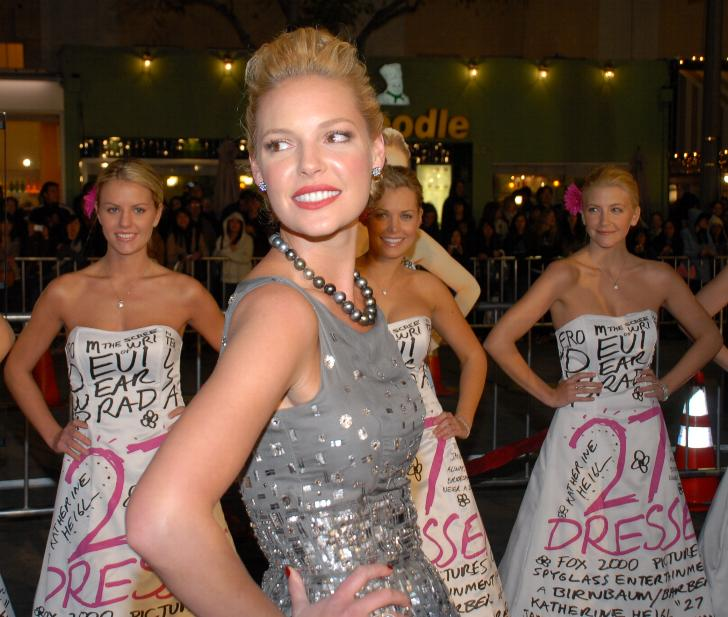 January 7, 2008 - 27 Dresses Premiere in Westwood